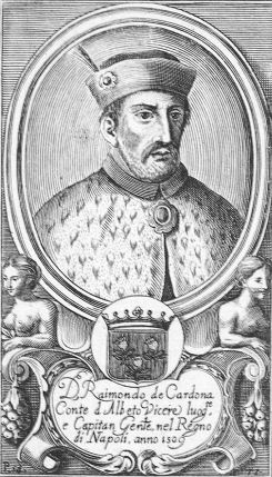 Ramon Folch de Cardona, viceroy of Naples